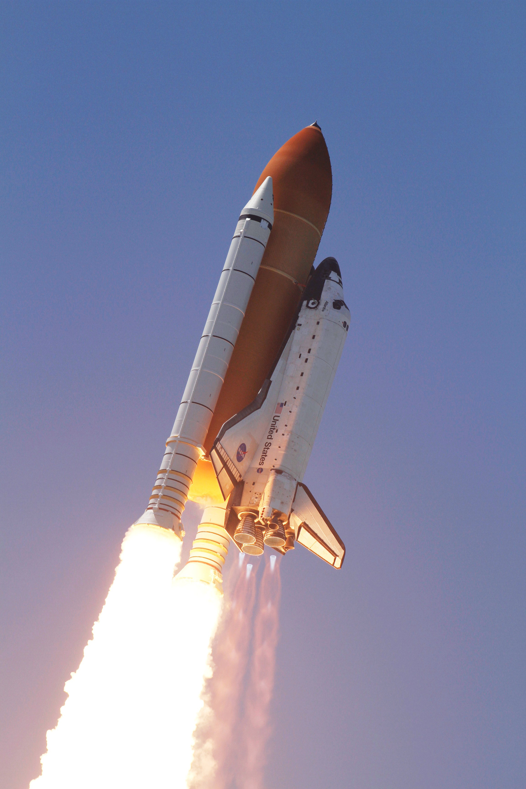 Space shuttle Atlantis soars to orbit from Launch Pad 39A at NASA's Kennedy Space Center in Florida on the STS-132 mission to the International Space Station at 2:20 p.m. EDT on May 14. The third of five shuttle missions planned for 2010, this was the last planned launch for Atlantis. The Russian-built Mini Research Module-1 is inside the shuttle's cargo bay. Also known as Rassvet, or "dawn," it will provide additional storage space and a new docking port for Russian Soyuz and Progress spacecraft. The laboratory will be attached to the bottom port of the station's Zarya module. The mission's three spacewalks will focus on storing spare components outside the station, including six batteries, a communications antenna and parts for the Canadian Dextre robotic arm. STS-132 is the 132nd shuttle flight, the 32nd for Atlantis and the 34th shuttle mission dedicated to station assembly and maintenance.